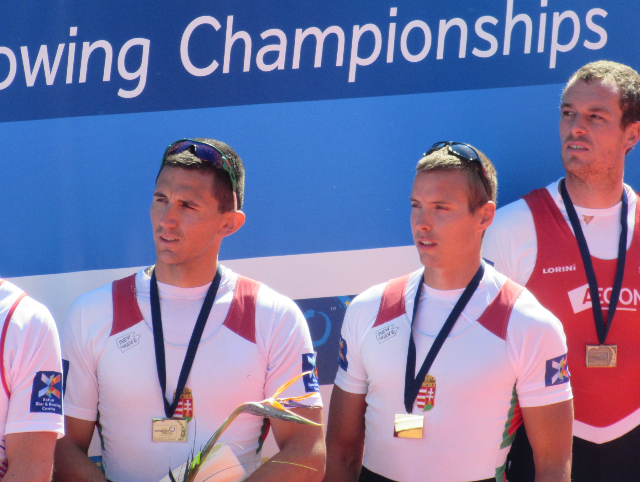 Béla Simon and Adrián Juhász (Hungary ) and Mitchel Steenman (Netherlands) at the 2016 European Rowing Championships in Brandenburg an der Havel, Germany